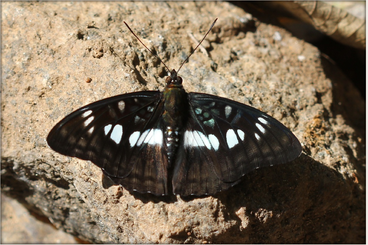 Black veined sergeant puddling at silent valley national park , india